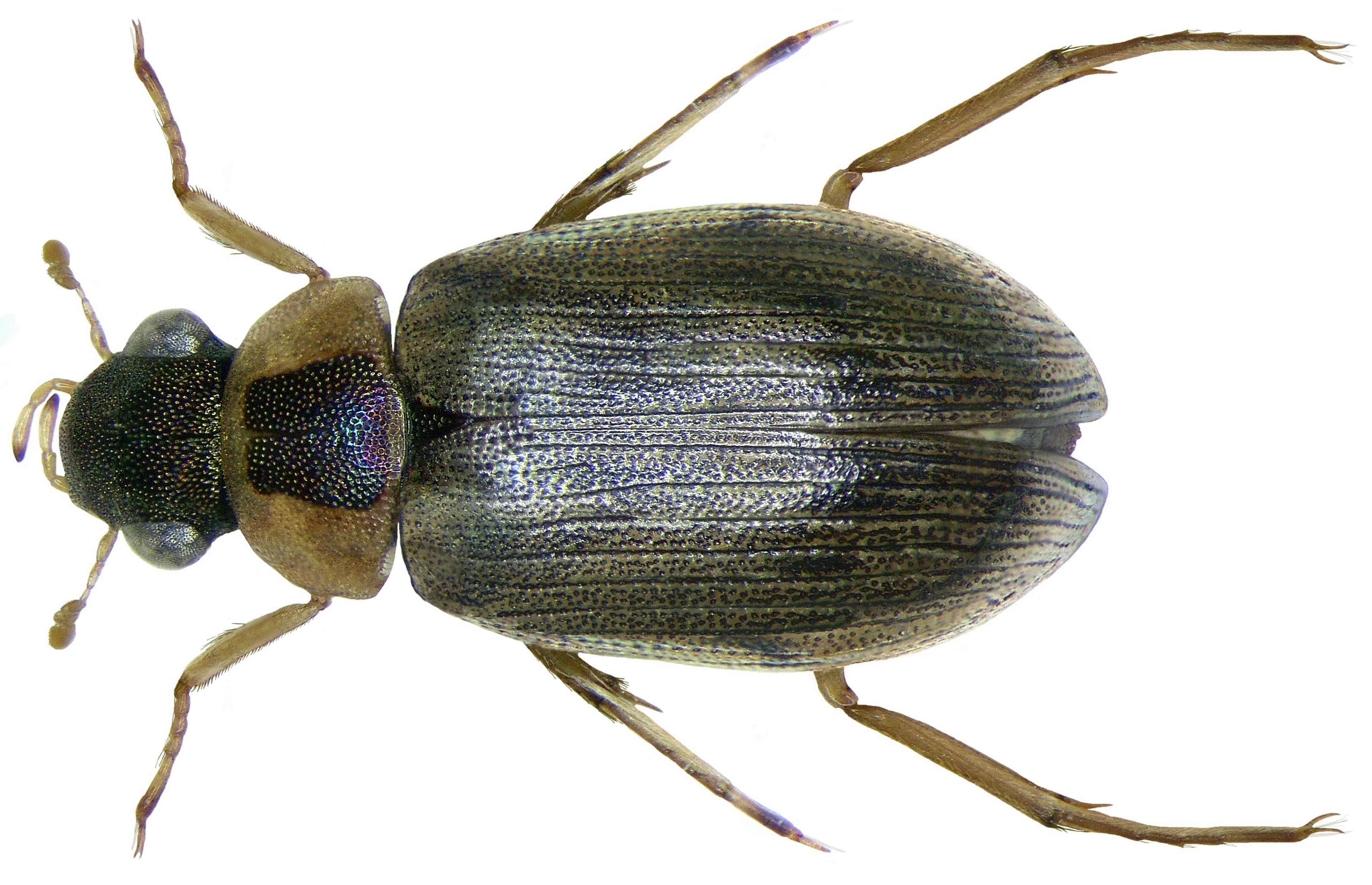 Dorsal view of an adult Berosus affinis